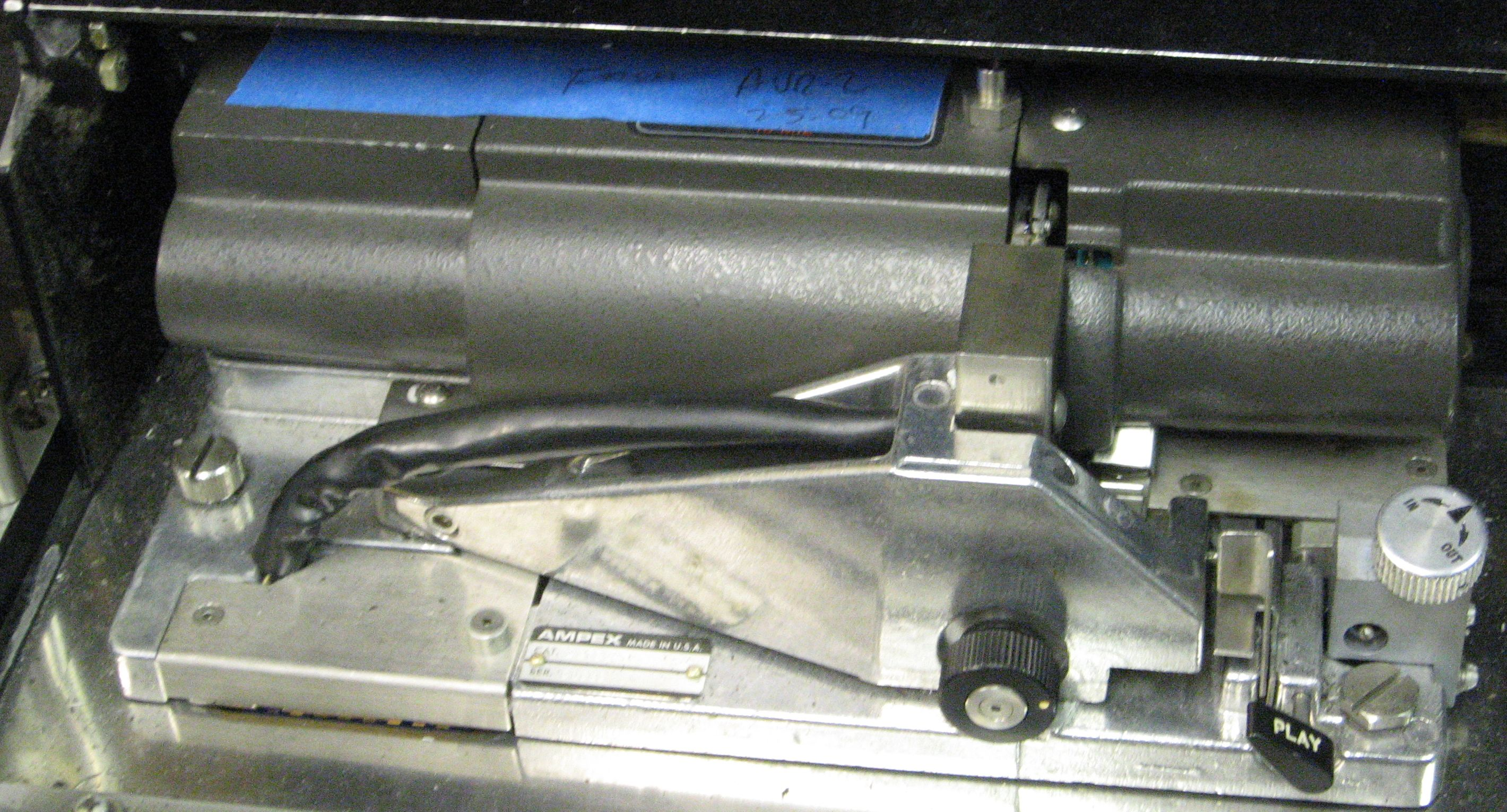 Telecineguy Ampex AVR-2 quad video head at DC Video Burbank, Ca USA My own work